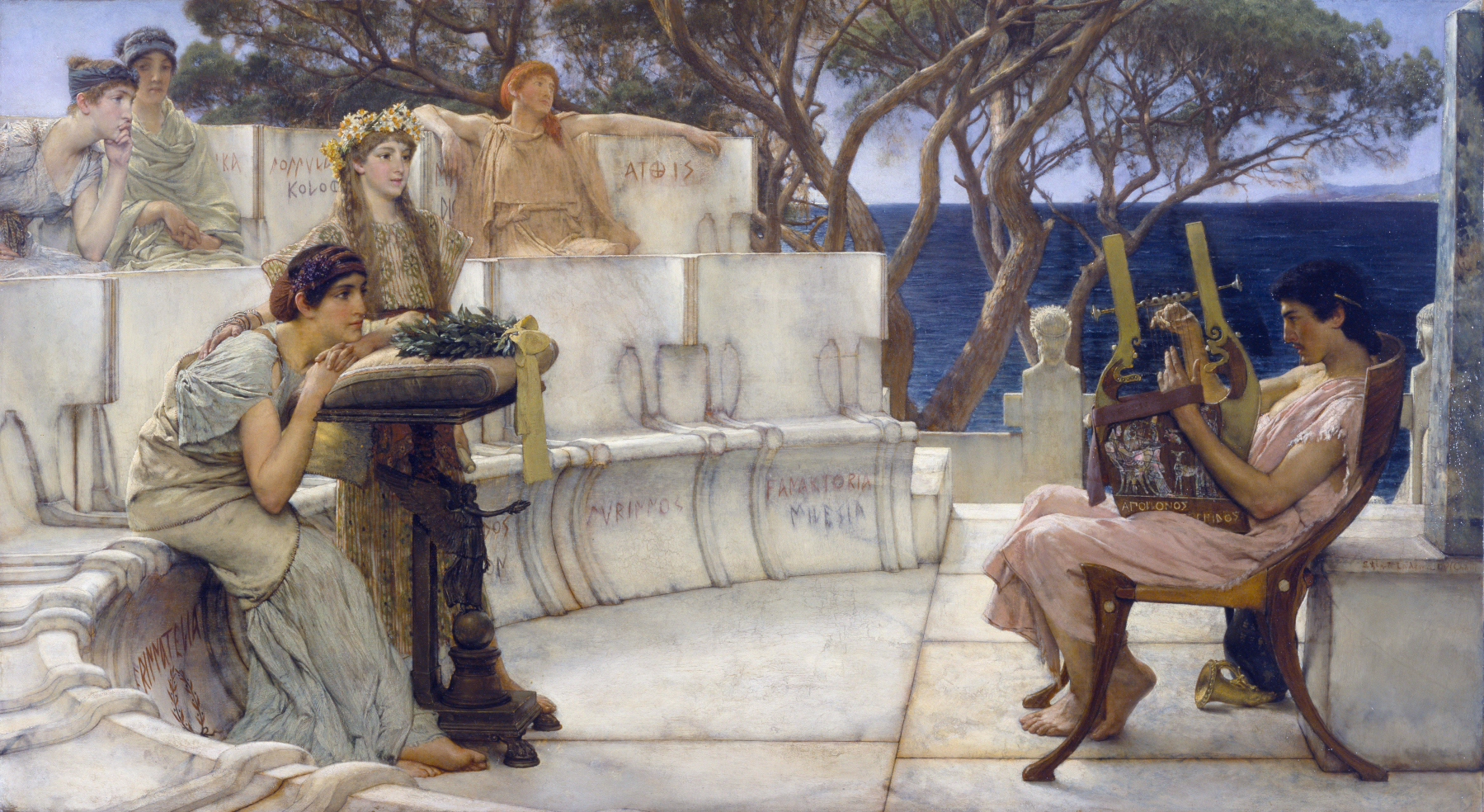 In 1870, the Dutch-born, Belgian-trained artist Alma-Tadema moved to London, where he found a ready market among the wealthy middle classes for paintings re-creating scenes of domestic life in imperial Roman times. In this work, however, he turns to early Greece to illustrate a passage by the ancient Greek poet Hermesianax (active ca. 330 BC) preserved in Atheneaus, Deipnosophistae, "Banquet of the Learned," xiii, 598. On the island of Lesbos (Mytilene), in the late 7th century BC, Sappho and her companions listen rapturously as the poet Alcaeus plays a "kithara". Striving for verisimilitude, Alma-Tadema copied the marble seating of the Theater of Dionysos in Athens, although he substituted the names of members of Sappho's sorority for those of the officials incised on the Athenian prototype.